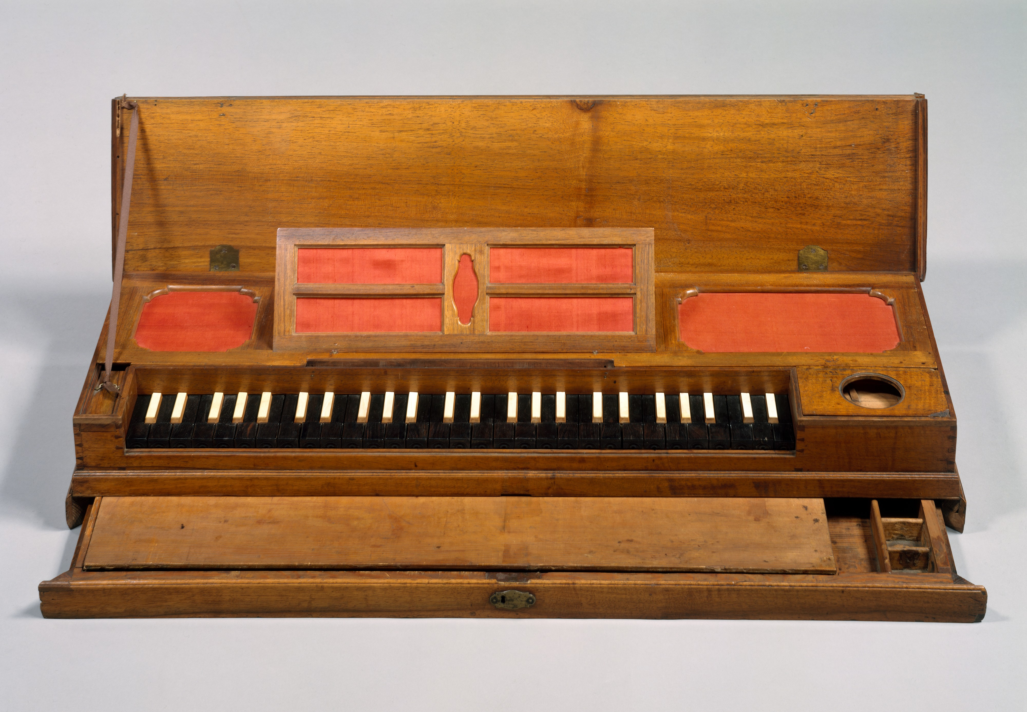 German; Clavichord; Chordophone-Zither-struck-clavichord